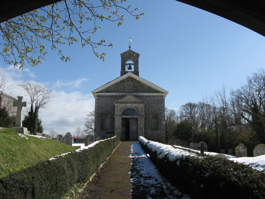 St Mary the Virgin parish church, Glynde,East Sussex, seen from the west